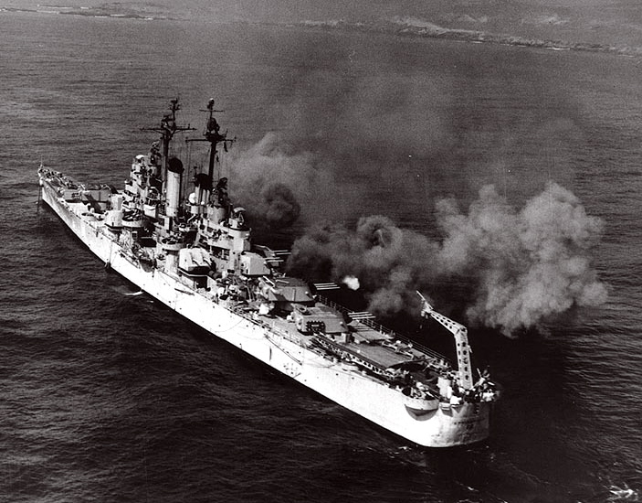 The U.S. Navy light cruiser USS Springfield (CL-66) fires her 6/47 and 5/38 guns, during gunnery practice in the Pacific, circa 1947-1948. Note that the cruiser still retained one aircraft catapult.